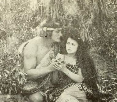 Still from the American film serial The Adventures of Tarzan (1921) with Elmo Lincoln and Louise Lorraine, on page 2 of the June 15, 1921 Film Daily.